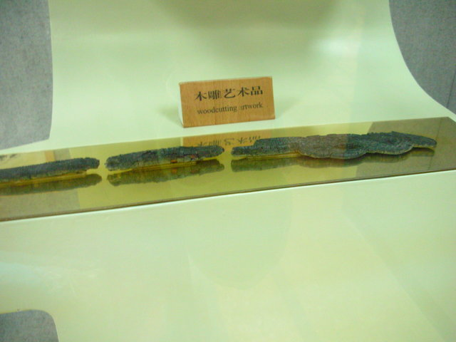 Carbonized wood carving, Xinle neolithic site, Shenyang, China 瀋陽新樂遺址出土鳥形炭化木雕藝術品